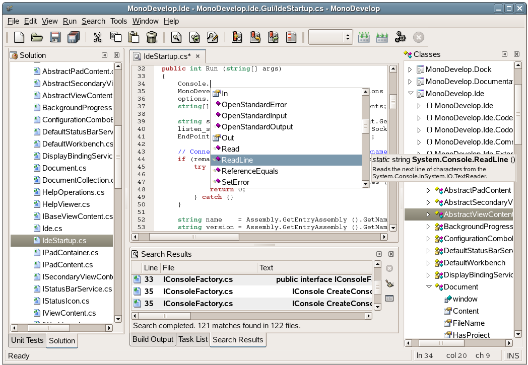 The MonoDevelop main window, showing the project pad, the class pad and the search results pad.